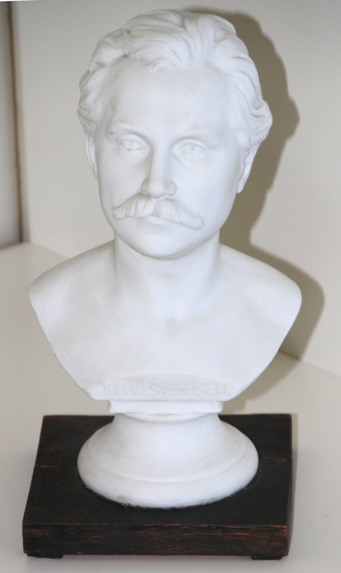 Work of the sculptor Mathias Skeibrok from Lista (Farsund, Vest-Agder), Norway. This sculptor worked in Paris and Oslo, and is regarded as one of Norway's most prominent sculptors. He was the teacher of Gustav Vigeland, who grew up in the neighbouring municipality of Lindesnes.